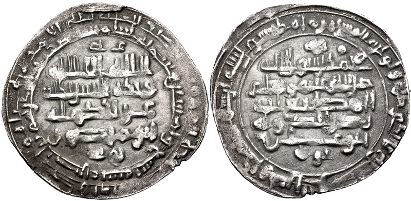 Coin of Izz al-Dawla, Buyid ruler of Iraq (r. 967–978).